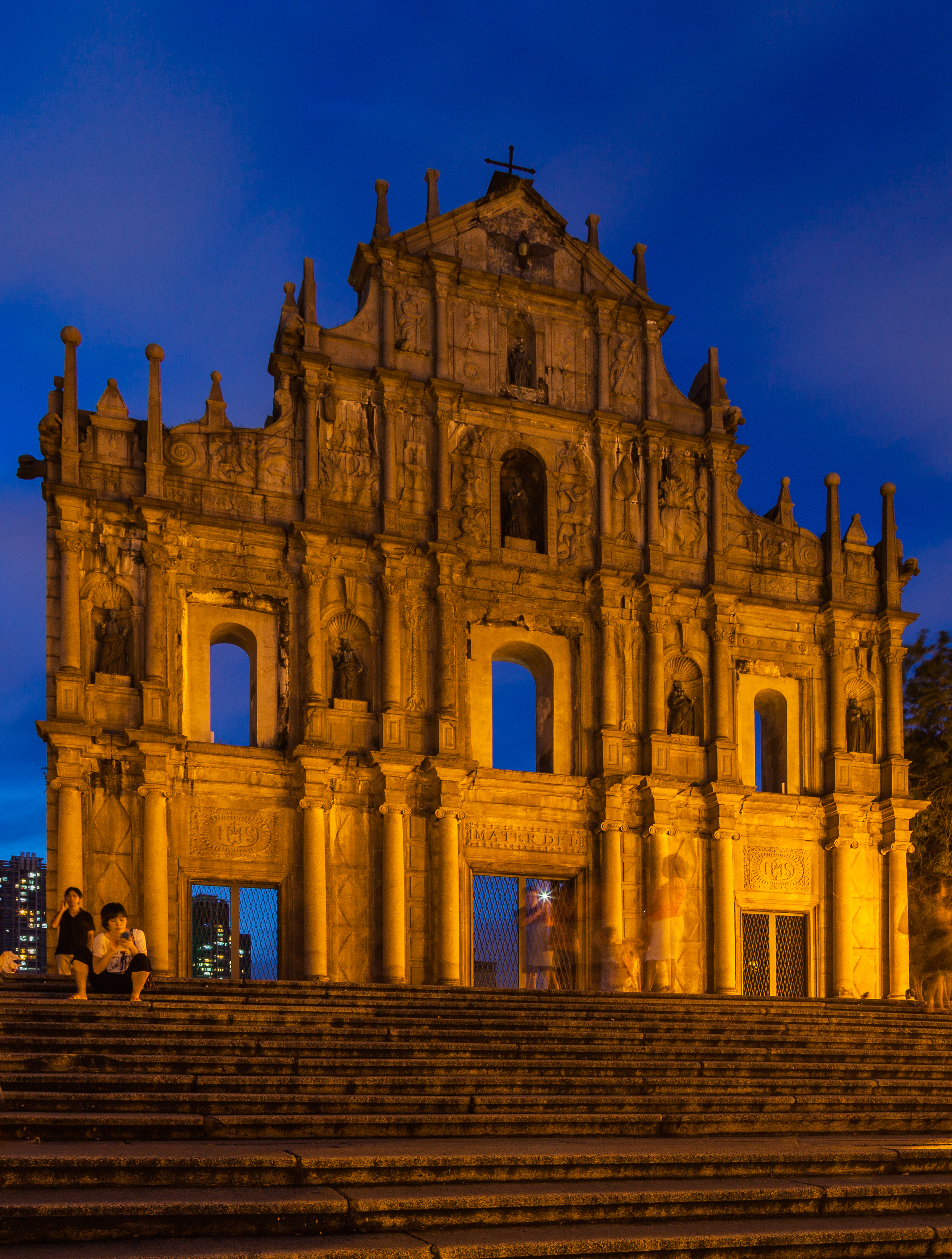 Remains of the Cathedral of Saint Paul, Macau